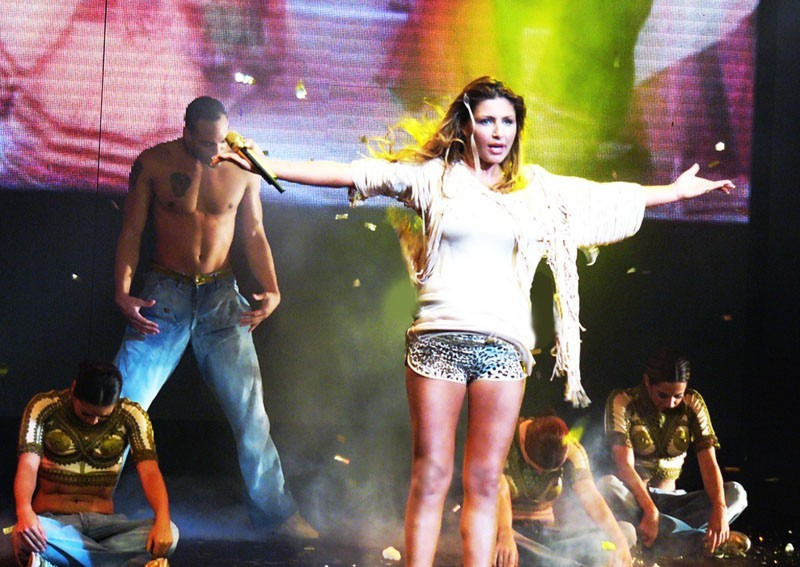 Greek-Swedish singer Elena (Helena) Paparizou performing "Katse Kala" at Thalassa: People's Stage on 12 September 2009